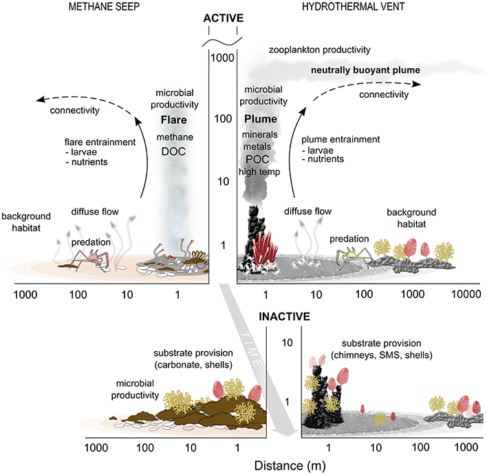 Schematic of seep and vent interactions with surrounding deep-sea ecosystems. The y axis is meters above bottom on a log scale. DOC, Dissolved Organic Carbon; POC, Particulate Organic Carbon; SMS, Seafloor Massive Sulfide.